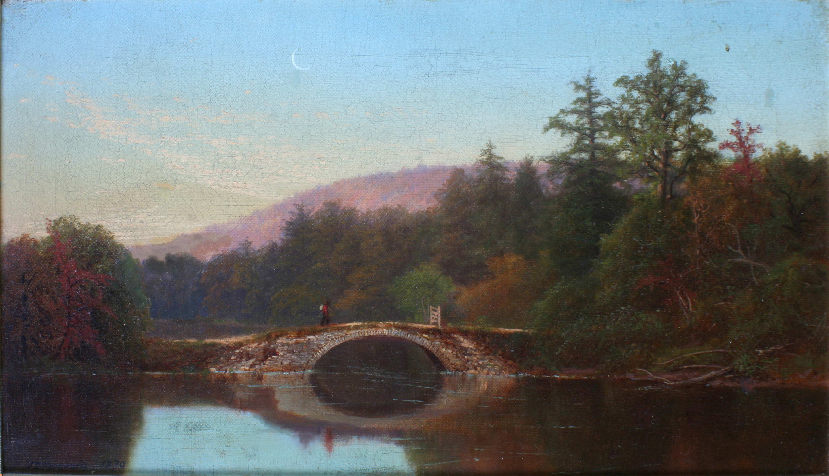 A lone figure walks across a stone bridge. Overhead is a thin crescent moon. This probably depicts Virginia or another southern state. If this is dusk and west-facing, the moon is at the wrong angle (Woodward made that same mistake in his engraving "City of Boston"). Oil on canvas, dated 1870, signed "JD Woodward." 14" x 24".